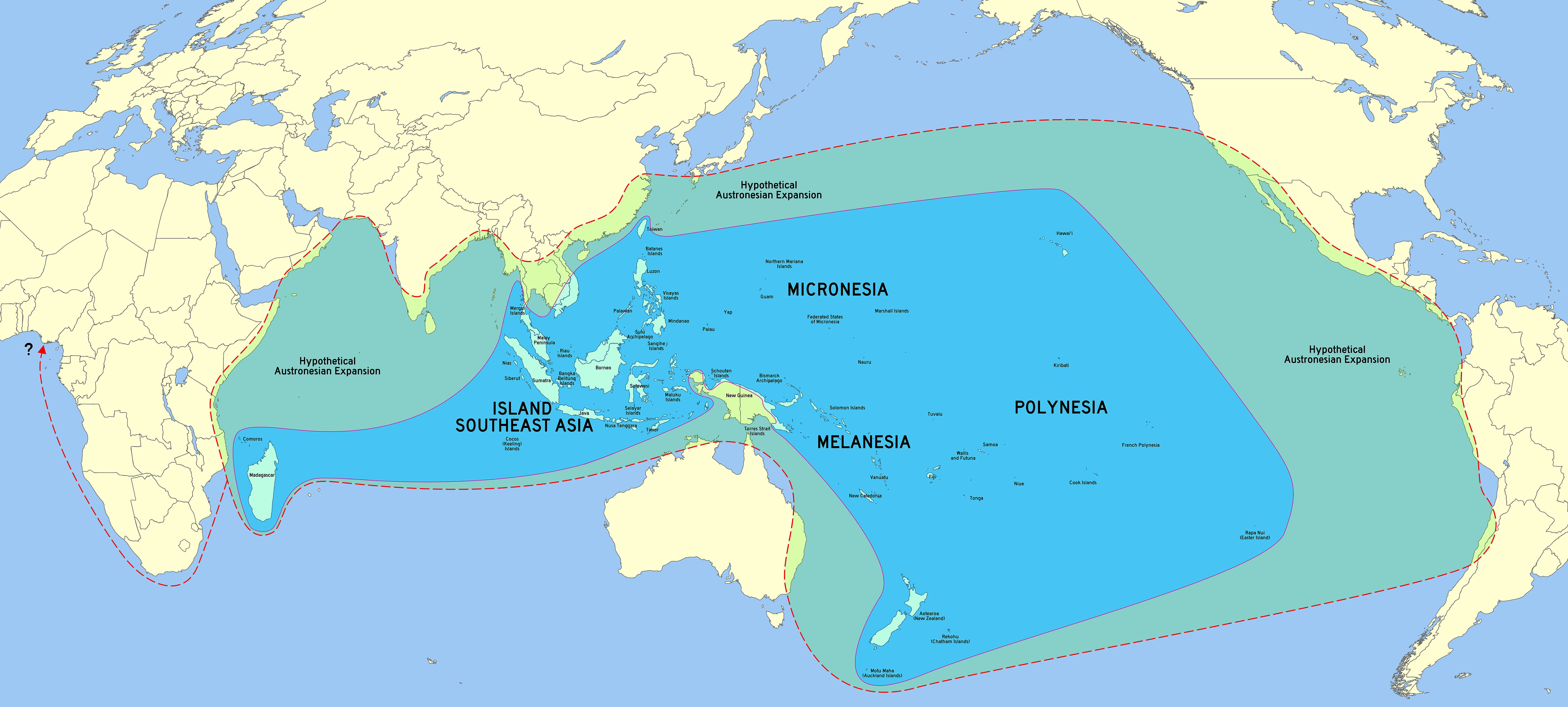 Austronesia with hypothetical greatest expansion extent per Blench, Roger (2009). "Remapping the Austronesian expansion". In Evans, Bethwyn. Discovering History Through Language: Papers in Honour of Malcolm Ross. Pacific Linguistics. ISBN 9780858836051.